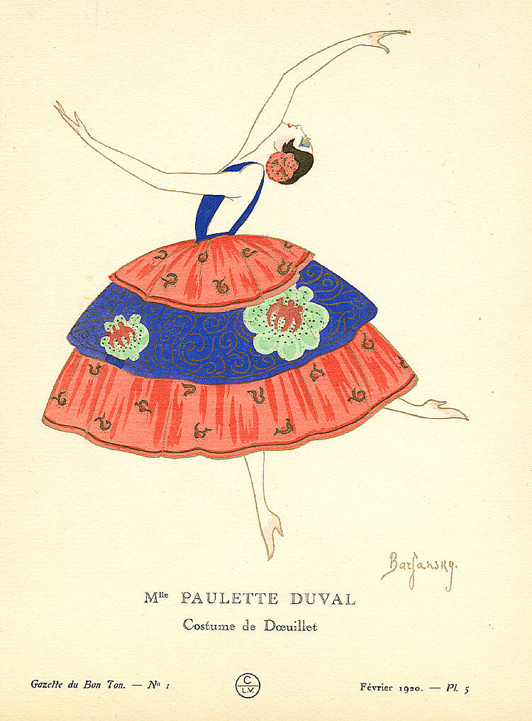 Fashion plate illustrating Paulette Duval (a famous ballerina) wearing a dress by Georges Doeuillet, Title: "Mlle. Paulette Duval".